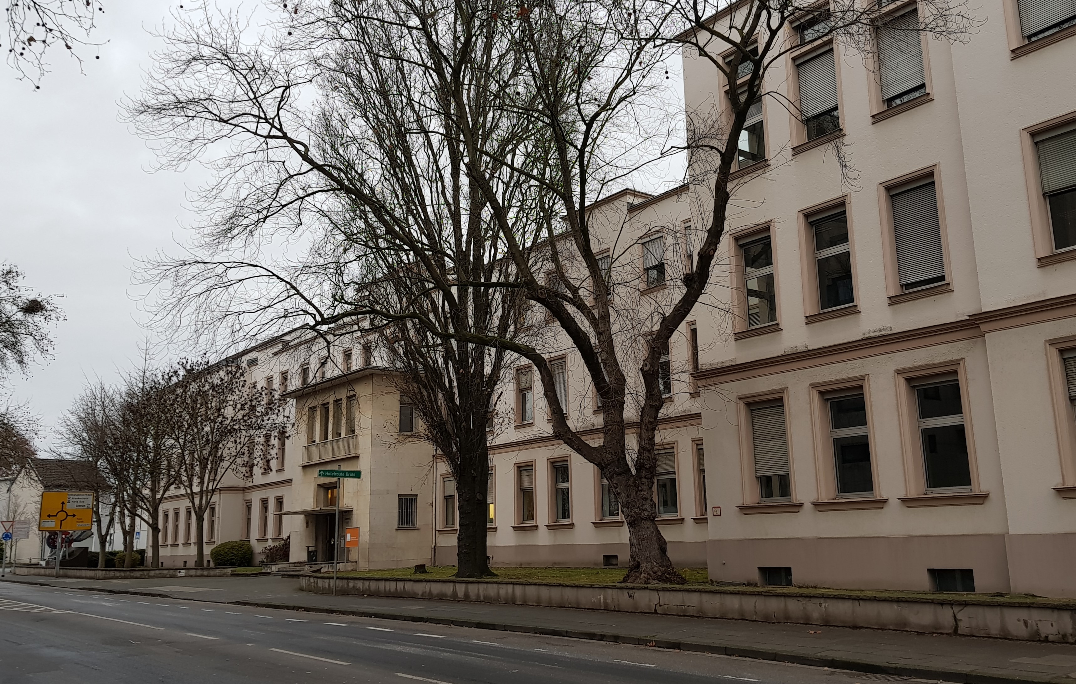 Seminar building of the EUFH in Brühl, Germany.